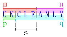 Shows an example of the equidivisibility property in free monoids (if m*n=p*q, then m=p*s and q=s*n for some s, or vice versa), with m='UNCLE', n='ANLY', p='UN', q='CLEANLY', and s='CLE'.